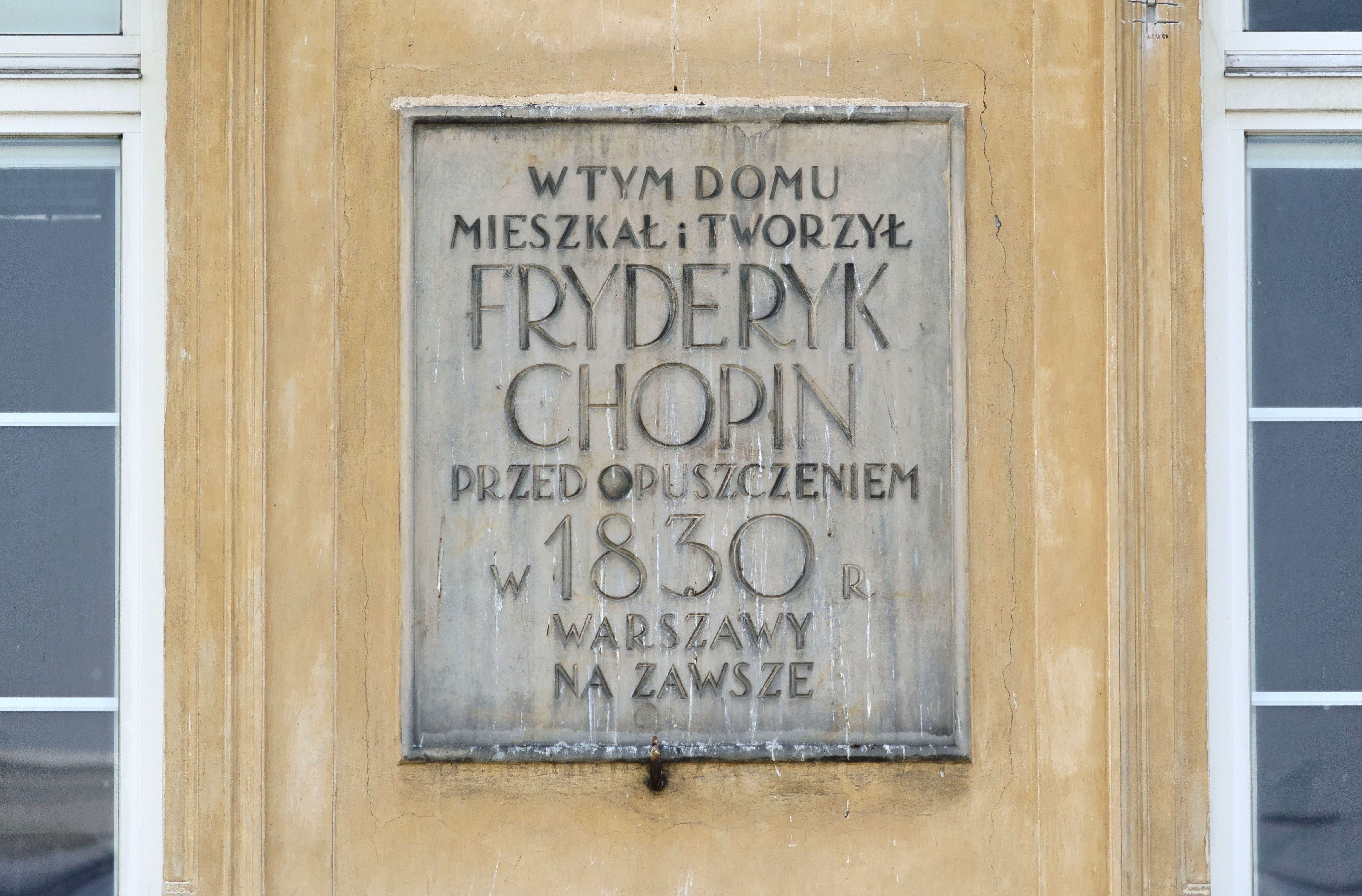 The commemorative plaque to mark Frederick Chopin's last place of residence in Warsaw on the facade of the Czapski Palace